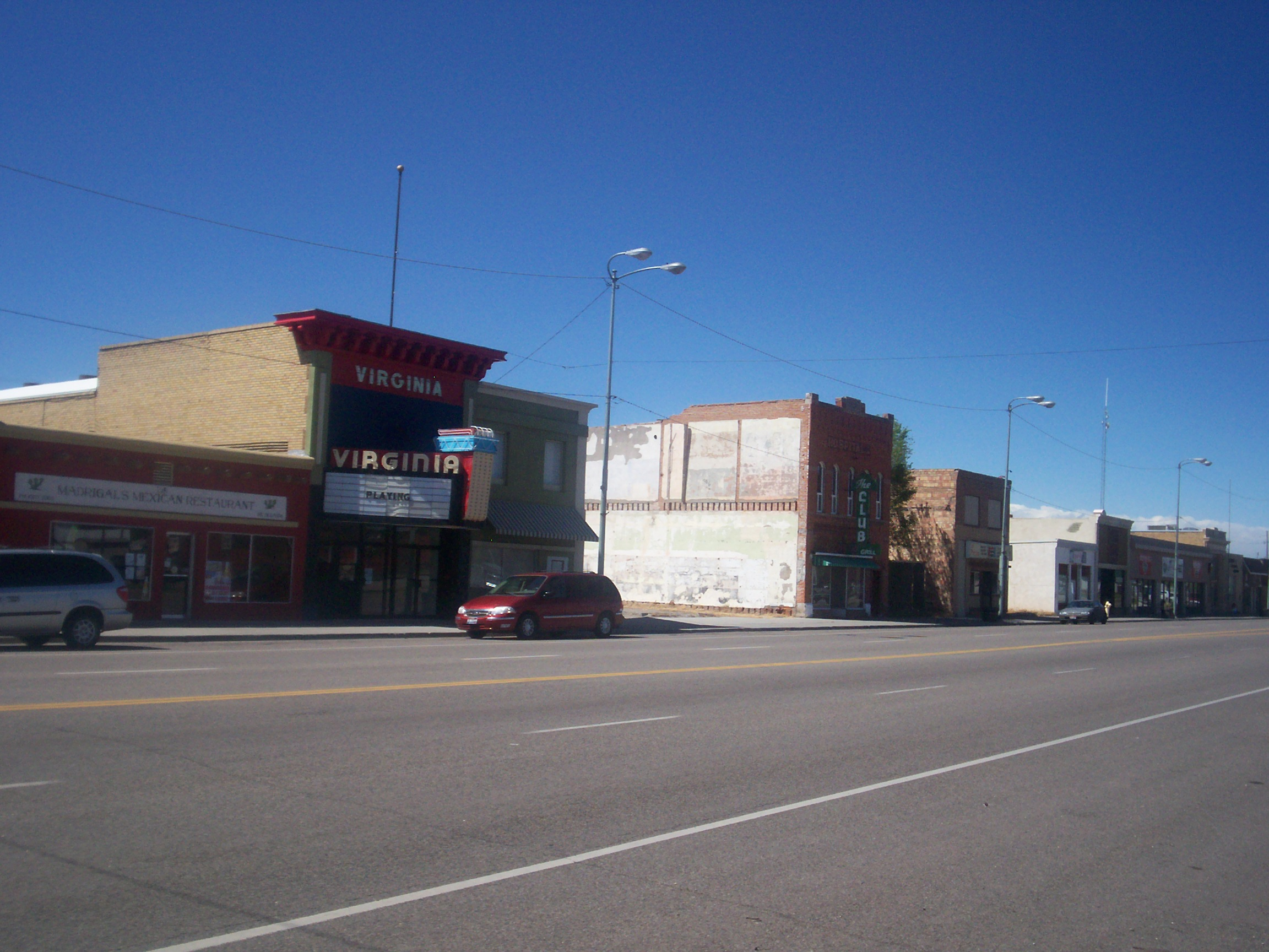 This is the main road that runs through Shelley, ID. It's just a few stores. You can see the old Virginia Theater, now renovated and home to community theater projects.